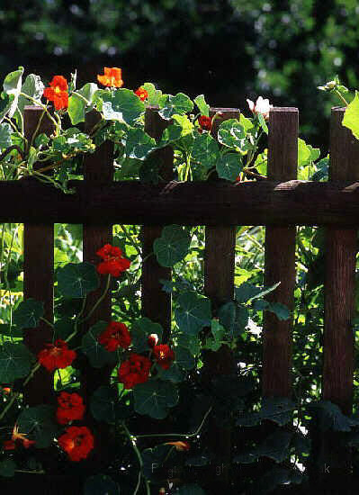 picket fence with nasturtium Fotograf: Walter J.Pilsak Copyright Status: GNU Freie Dokumentationslizenz